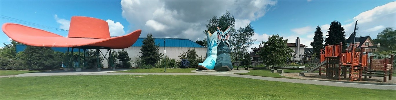 A panorama of Oxbow Park in Seattle showing the Hat'n'Boots landmarks.